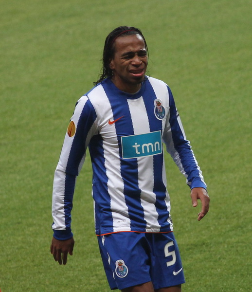 Álvaro Daniel Pereira with FC Porto during a UEFA Europa League match